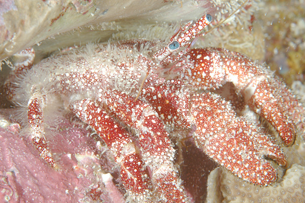 Red Hermit Crab (Paguristes puncticeps), Mona Island, Puerto Rico. Image taken by Clark Anderson/Aquaimages.